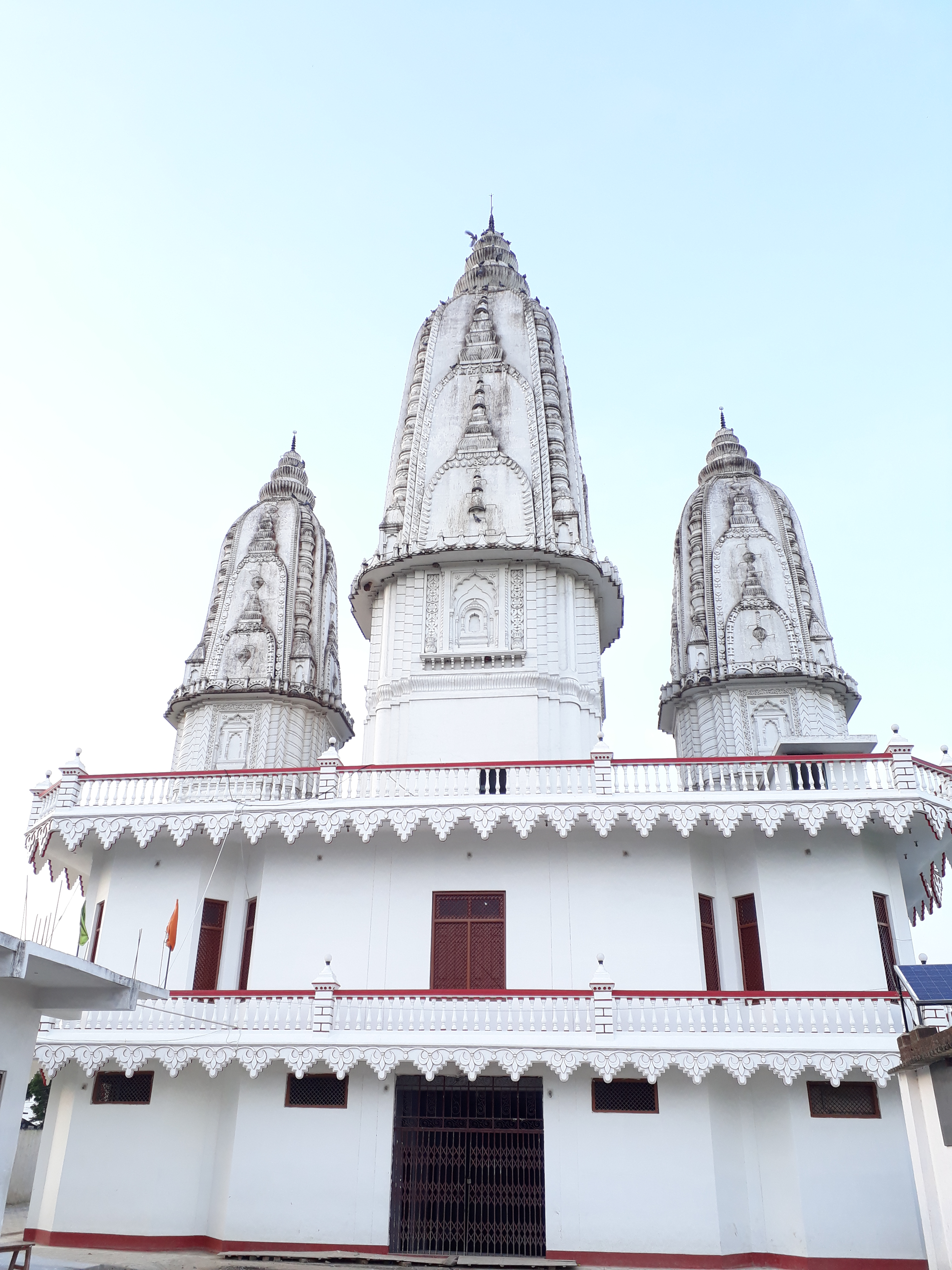 Situated in chhorhar of ballia district (uttar pradesh) it is one the reflection of mordern day engineering engaged with unique artistic design taken from hindu mythology. Pefect place with spiritual surrounding, green environment.